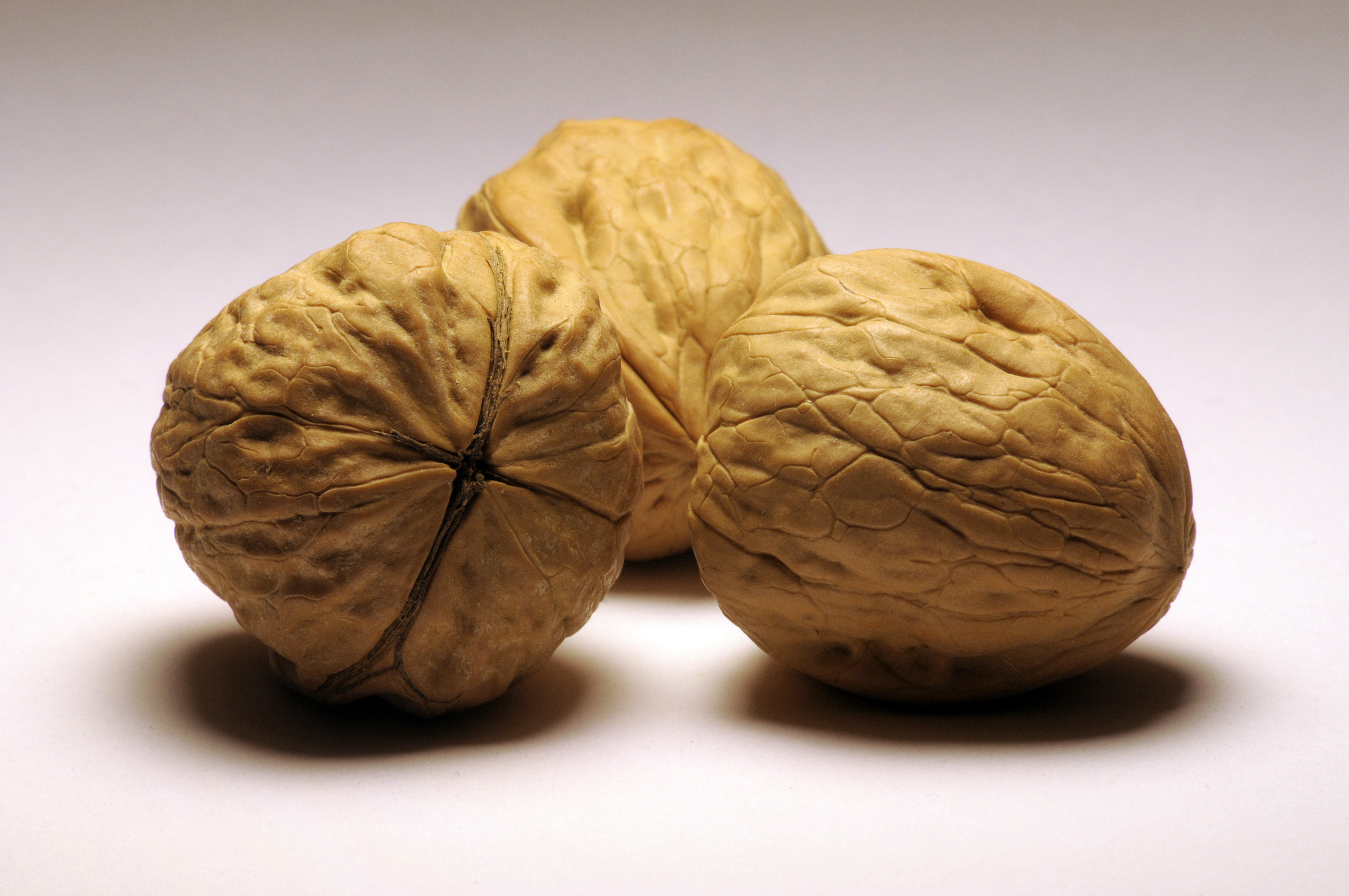 Walnuts